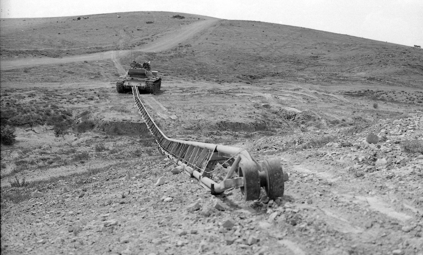 Centipede system - Hostile Weapons Locating System. Anti minefield system created by IDF. The uniqueness of IDF Centipede system is that the 72-foot-long slab, which consists of twenty episodes, is pushed into a degraded area without breaking. This was made possible by the unique system solution - three steel rods stretched three tons each, from head to tail, which is what made the whole system work like a spring. This is a unique solution unparalleled in the world in the field of minefield mining.